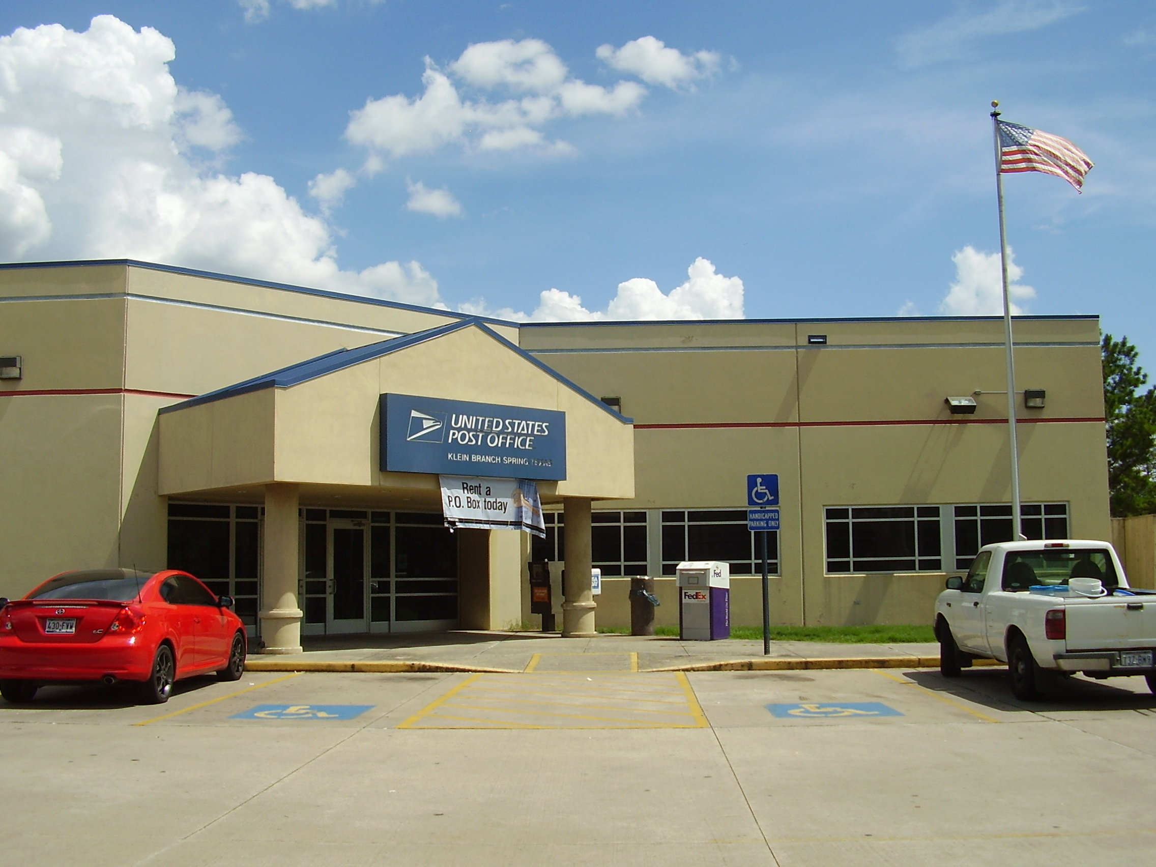 Klein Branch Post Office